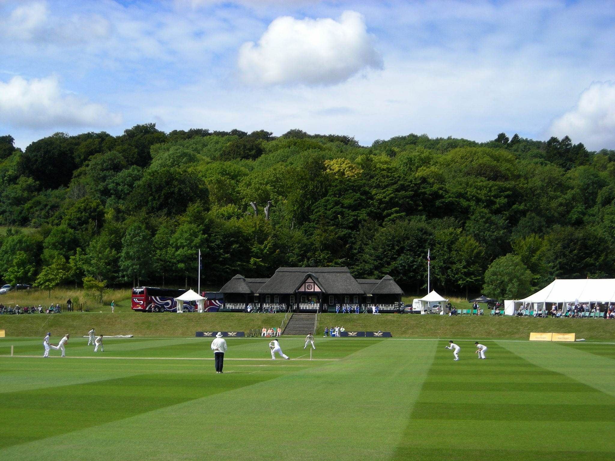 Cricket at Wormsley